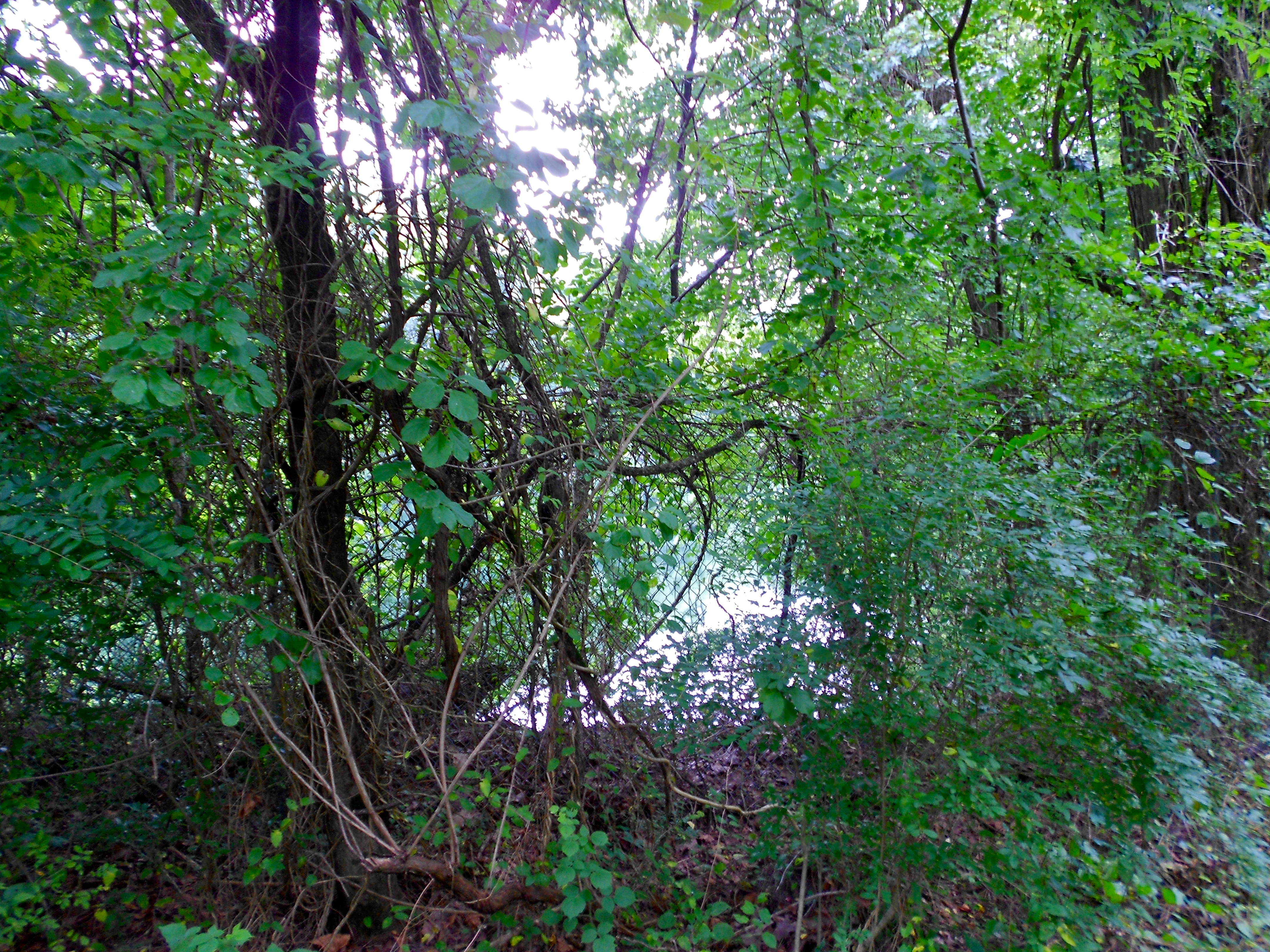 Quarries of the Hummelstown Brownstone Company, listed on the NRHP on February 27, 2003. The quarries are north of Brookline Drive, centering on Amber Drive, Derry Township, Dauphin County, Pennsylvania, about 2 miles south of Hummelstown, PA (take Quarry Road). The area is surrounded by strong chain link fences with lots of "no trespassing" signs, and is quite overgrown. The 3 quarries are filled with water (almost visible in the photo) and would be a serious hazard if they were not fenced off. This photo is at the end of Amber Drive looking west.